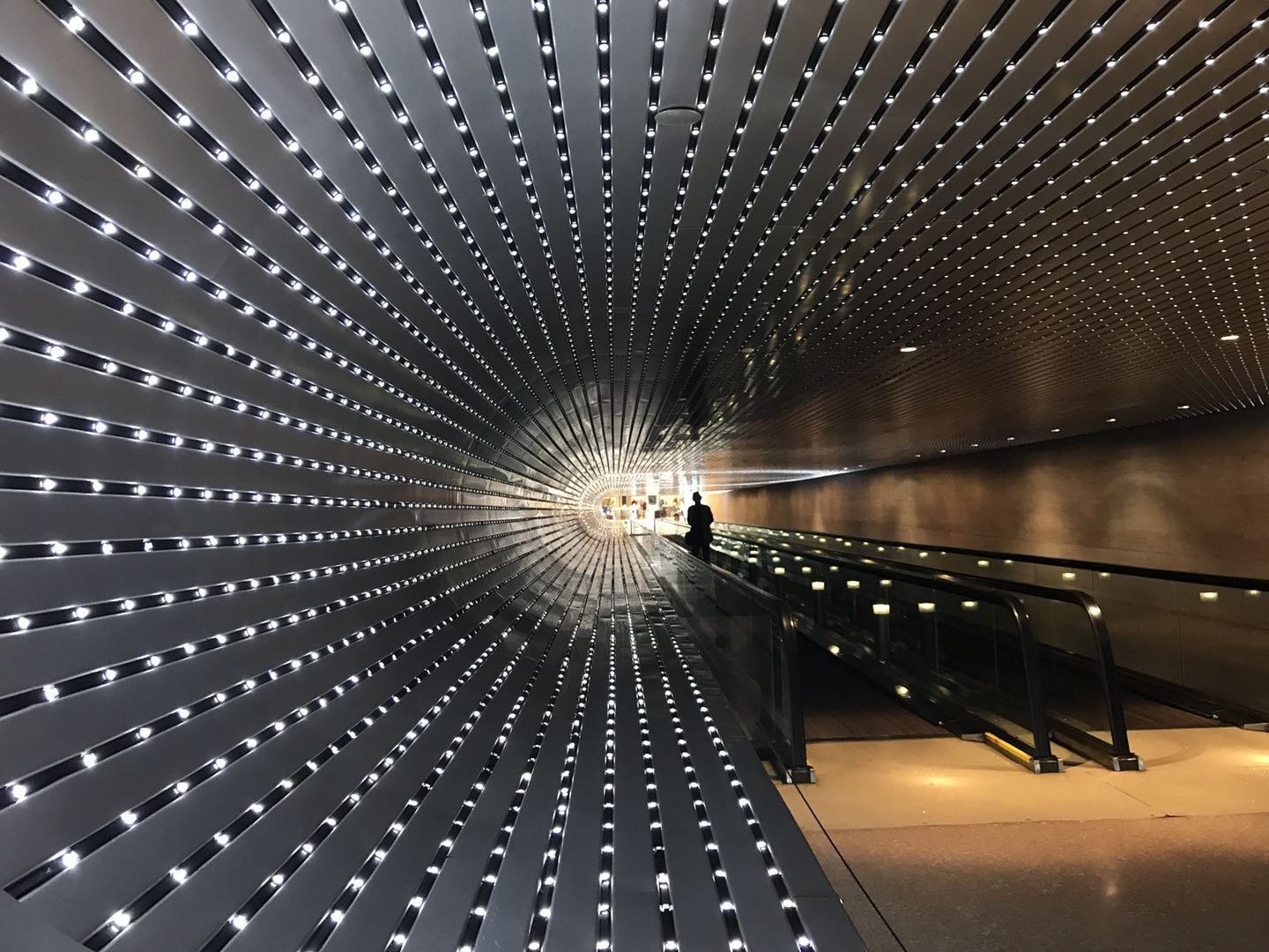 Walkway to West Building and Cascade Cafe in National Gallery of Art, Washington D.C.